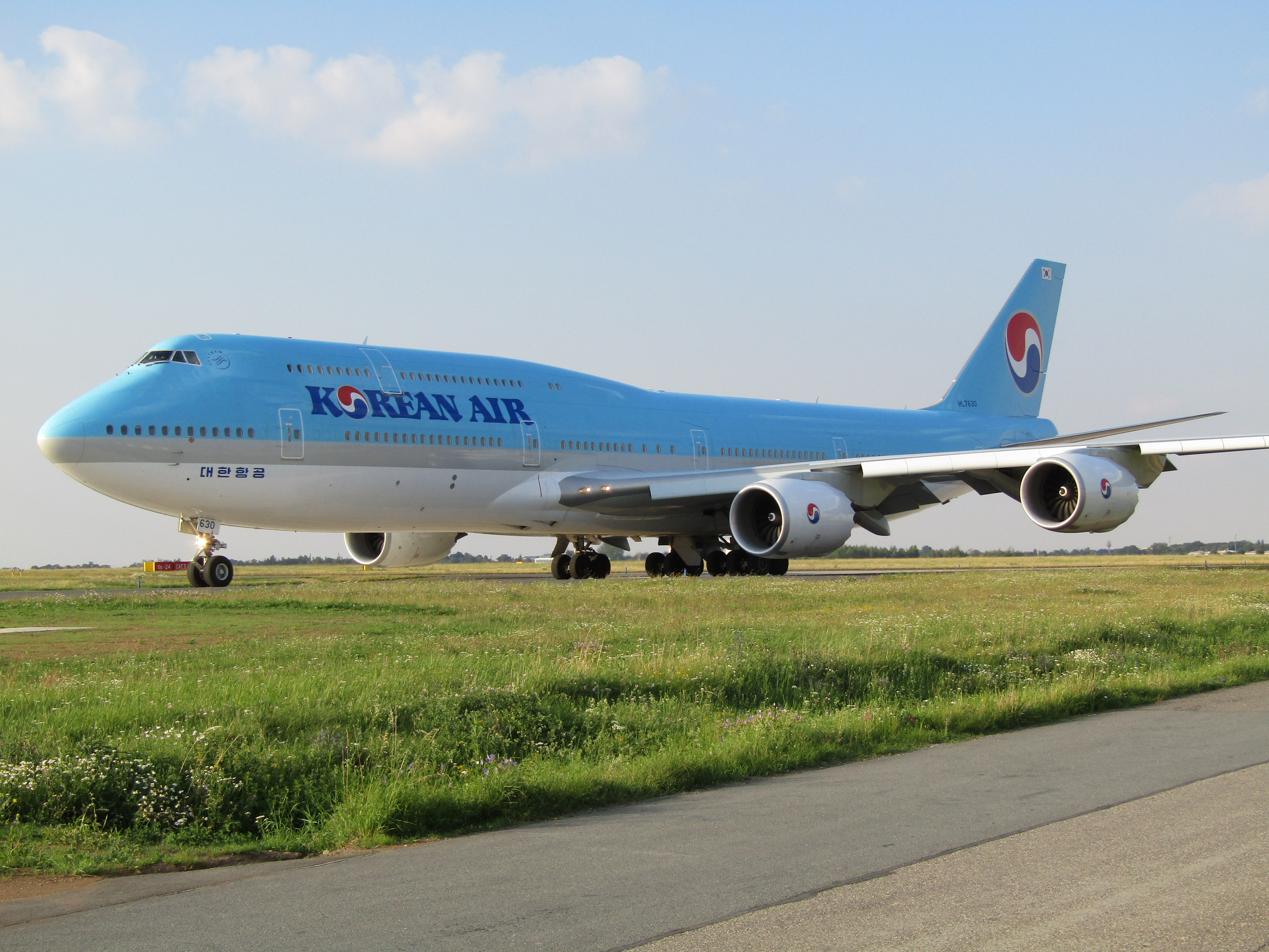 Boeing 747-8I, Korean, PRG